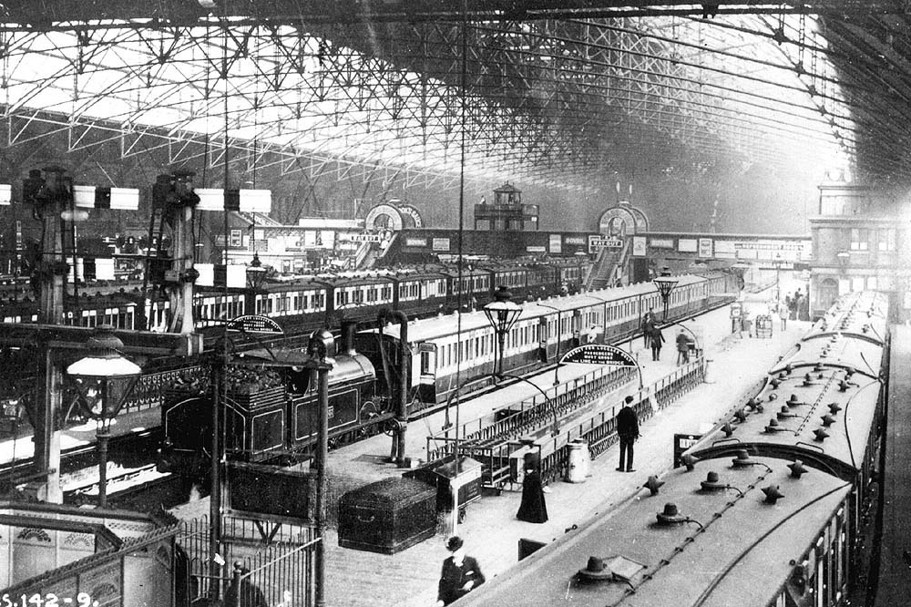 New Street Station in Victorian Times, around the 1890s